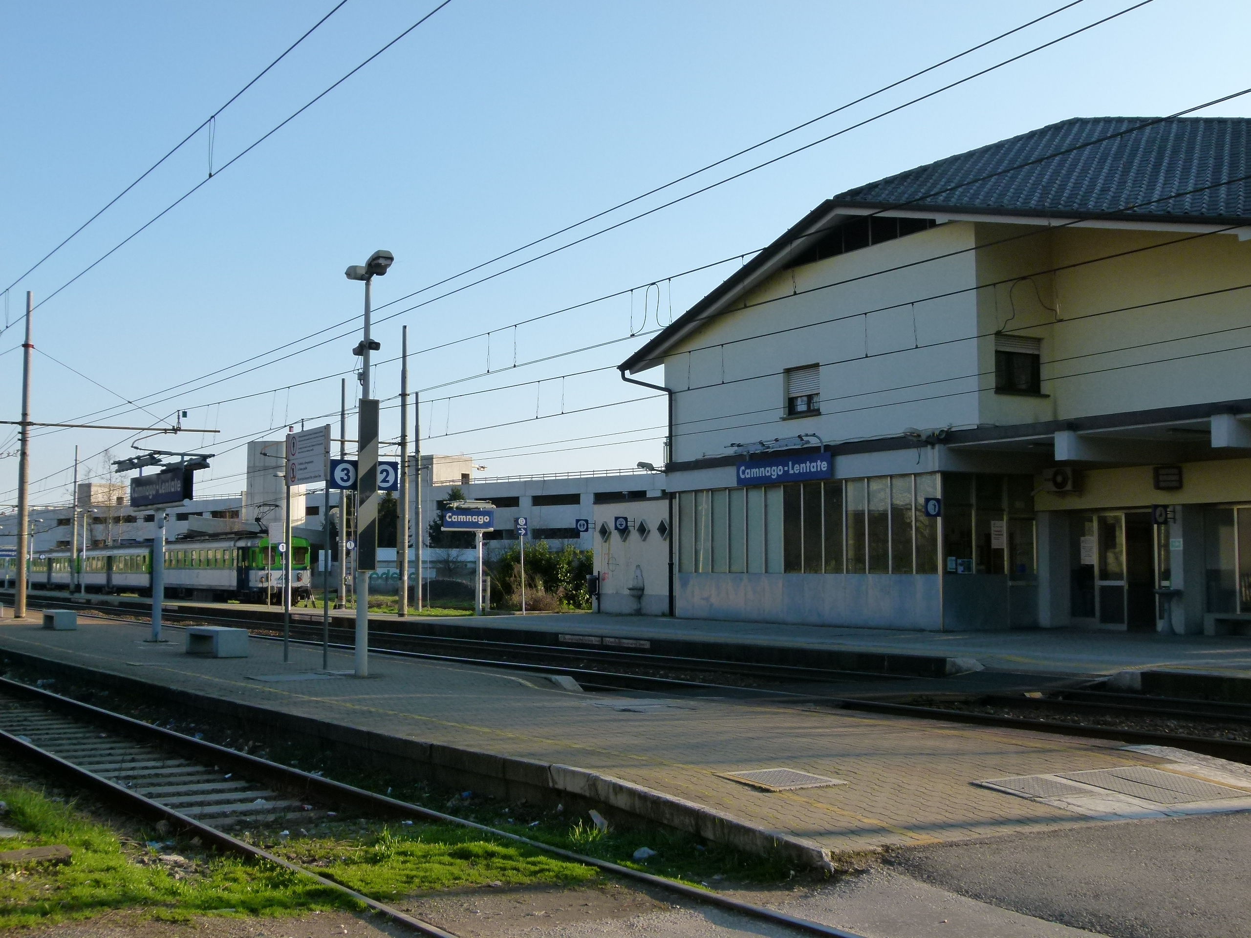 Camnago-Lentate railway station. The station is on the Milan-Chiasso railway (Trenitalia) and on the Seveso-Camnago, part of the Milan-Asso railway (LeNord). On the left a LeNord EB 740 on suburban S4 duty.